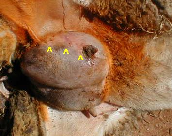 Gangrenous mastitis in a ewe; the arrows show the limits of the gangrenous tissue. Orange-brown colour on the belly comes from traditionnal application of henne Walon: Mamite å grangrin a ene berbis; les fritches mostrèt les boirds des moitès tchås. Li coleur orandje-brune vént d' on cadorisinaedje avou do hené